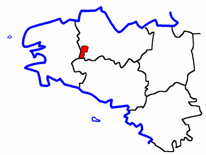 Description: Map for localisazion of cantons of Bretagne region in France Source: made by Hervé Tigier in april 2005 from another large map (published in 1990)